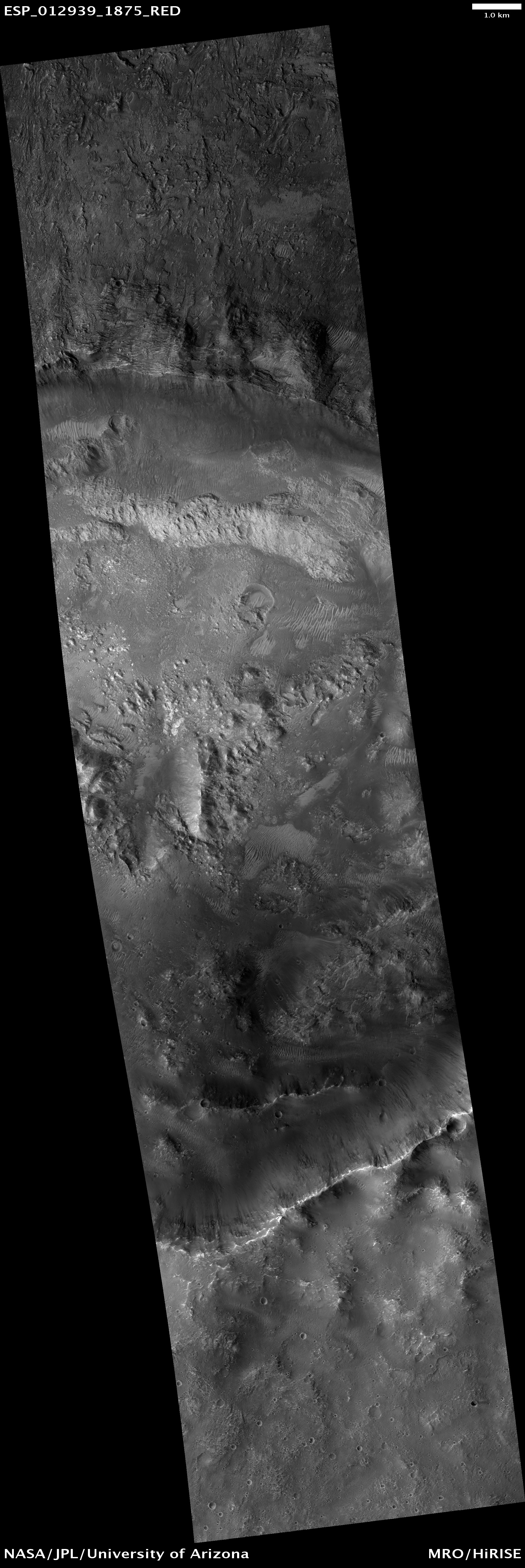 Taytay crater, as seen by hirise. Location is 7.37 N and 340.4 E.